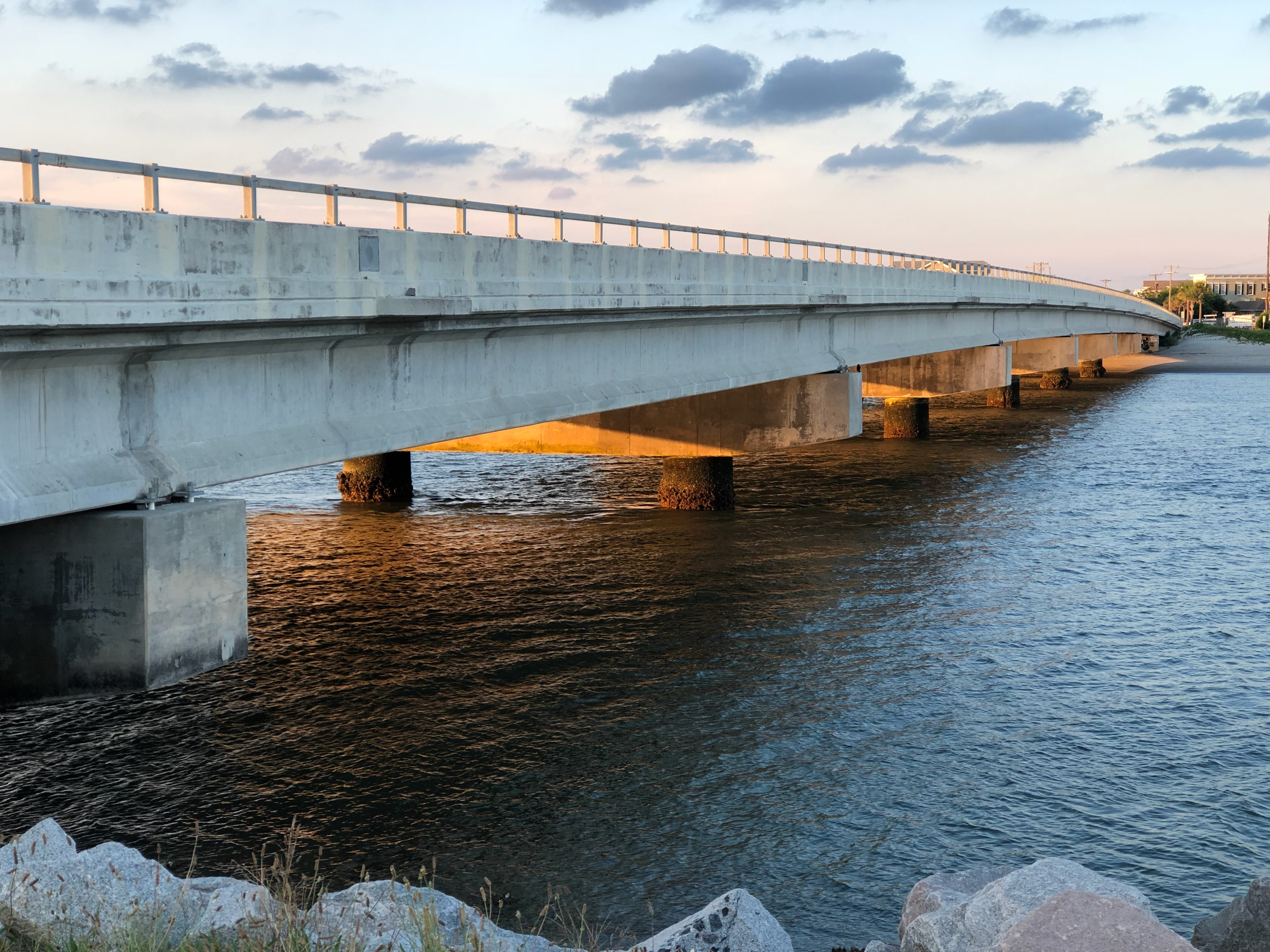 The bridge over Breach Inlet connecting Sullivan's Island to Isle of Palms Route SC703